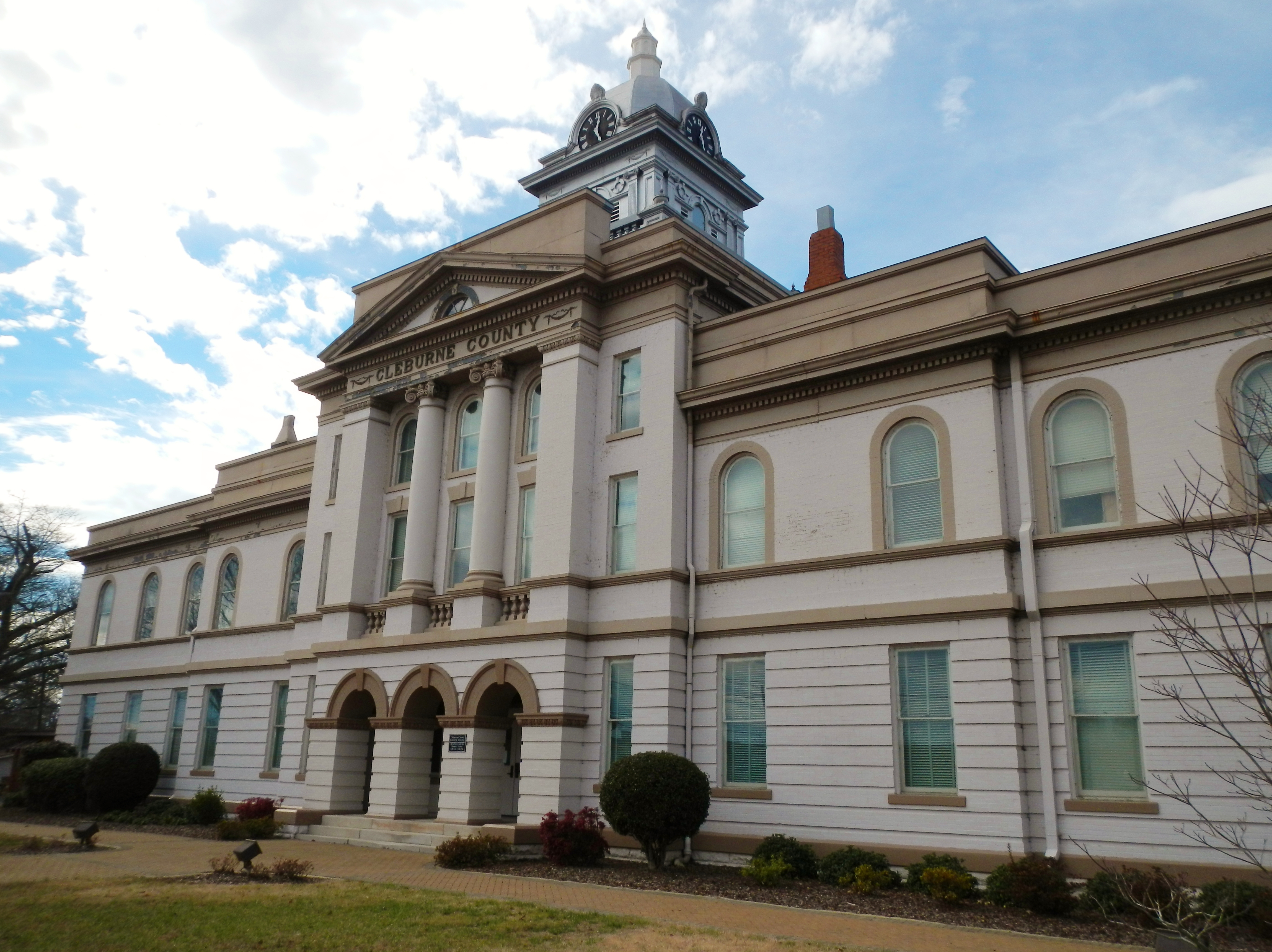 This is a 2012 photograph of the Cleburne County Courthouse located in Heflin, Alabama.